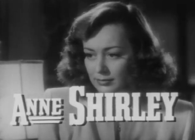 Screenshot of Anne Shirley from the film Murder, My Sweet (1944).